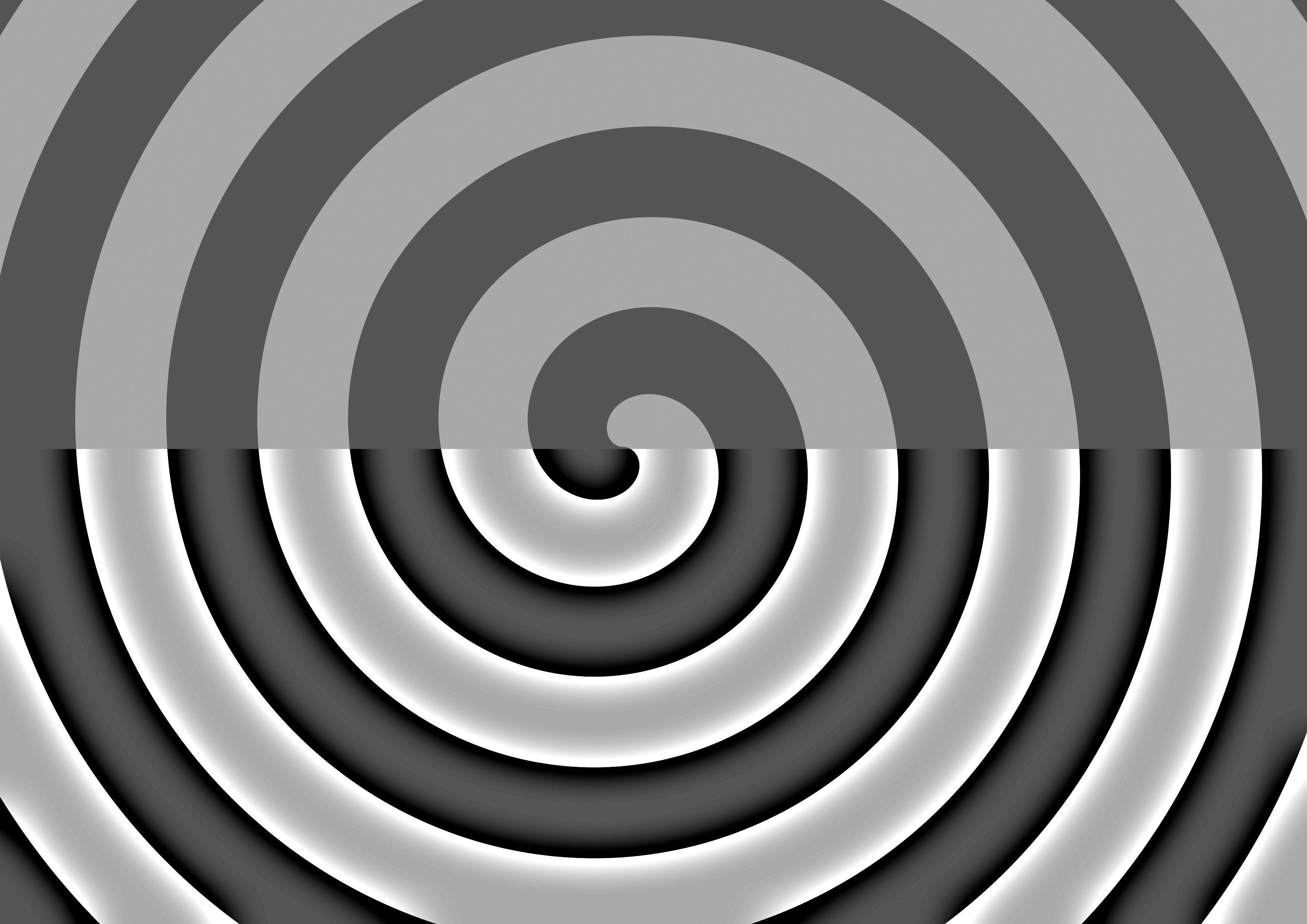 Unsharp mask (USM). USM applied to lower part of image. Radius:50, Amount:3, Threshold:0. Jpg save Quality:90% Areas neighbor to dark colors are lightened, areas neighbor to light colors are darkened. Any other artefacts seen are due to USM itself. This raster graphics image was created with GIMP.